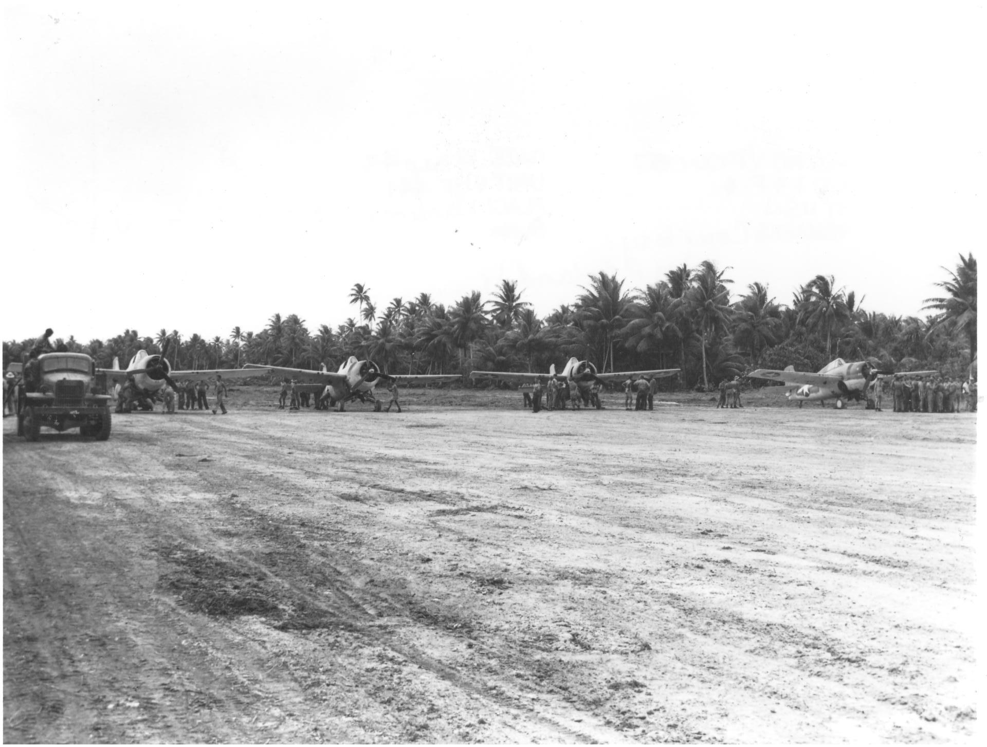 U.S. Marine Corps Grumman F4F Wildcats of of Marine Fighting Squadron VMF-441 at Nanumea, Tuvalu, Ellice Island, standing alert.